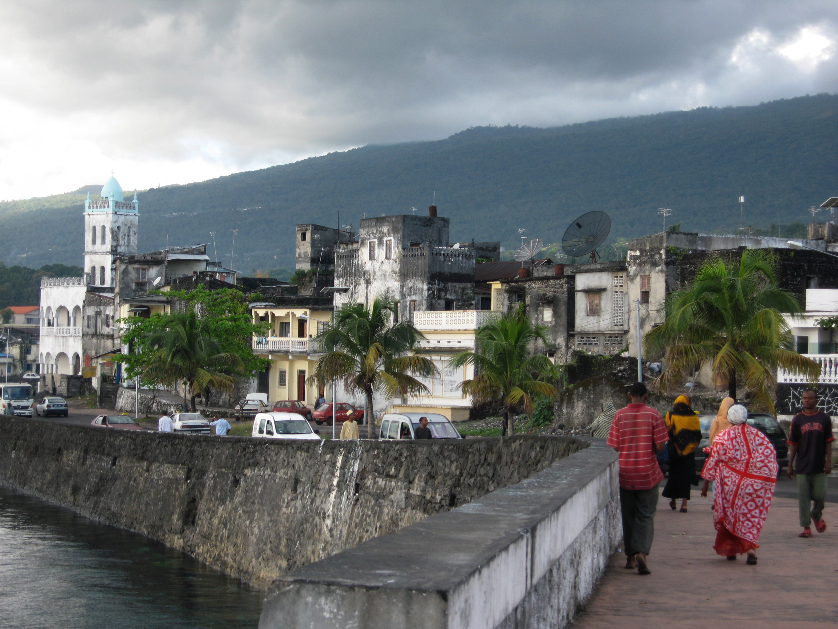 Moroni harbour, Grande Comore